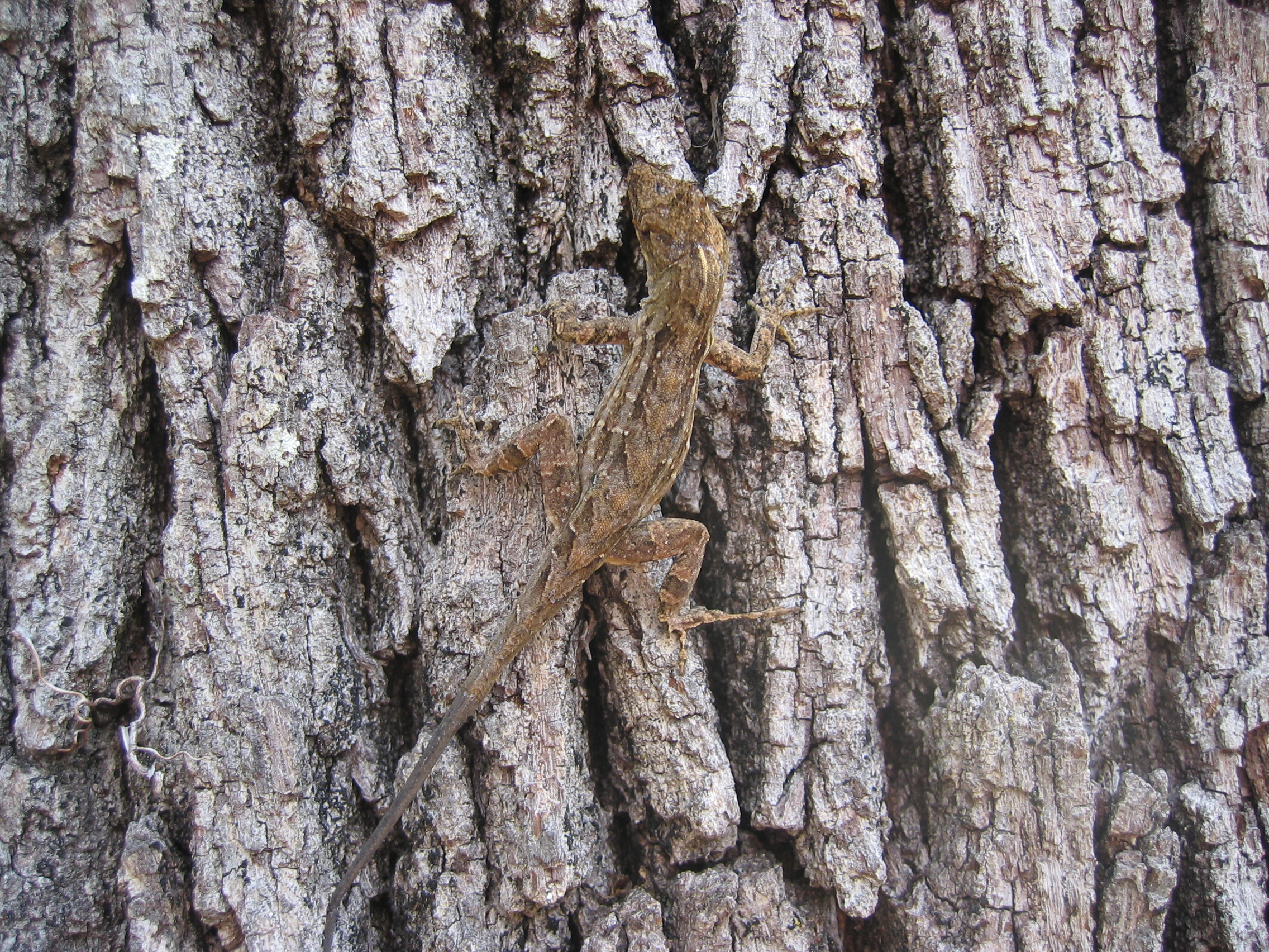 Photo of a brown anole (Norops sagrei).